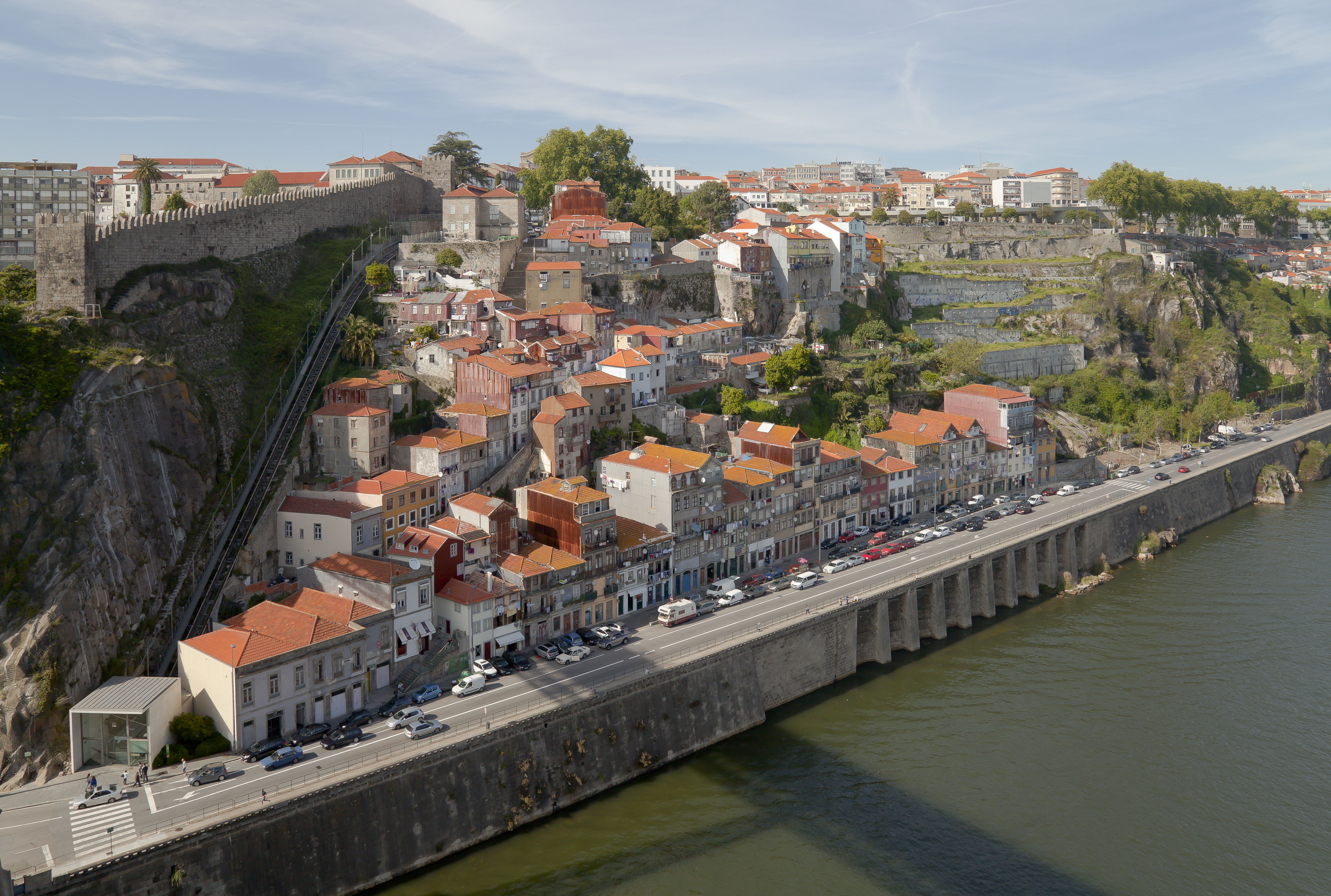 Encosta dos Guindais, Porto, Portugal